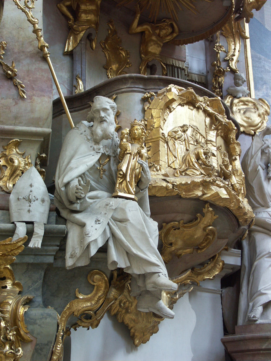 Ettal Abbey, Ettal, Germany - Pulpit (Detail)